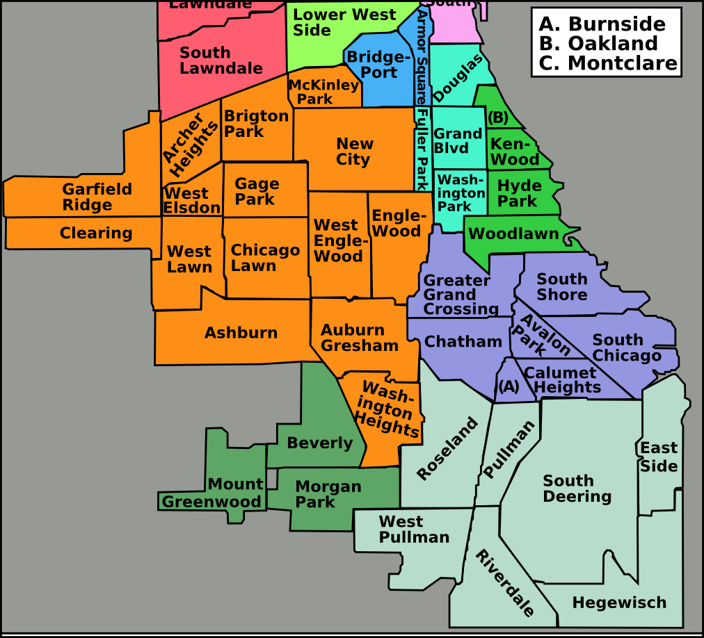 South Side redistricting suggestion. ugly, but hey, just for a talk page, Chicago.